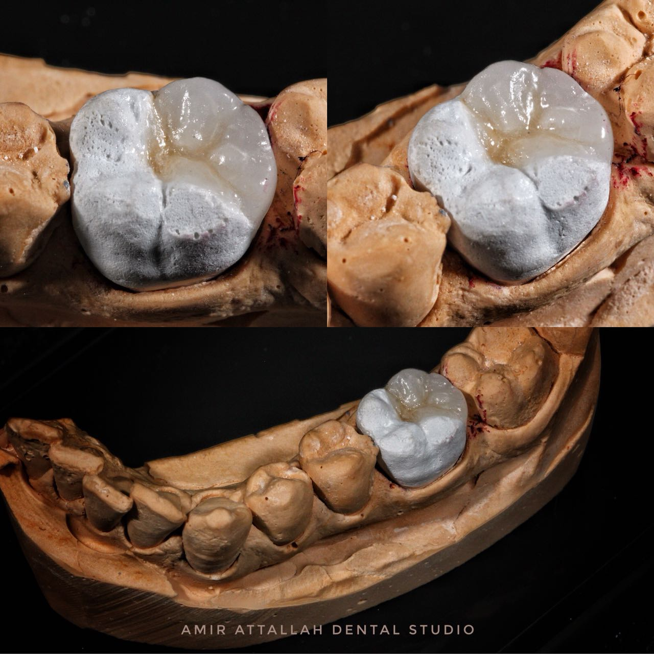 Emax Press fabricating an inlay